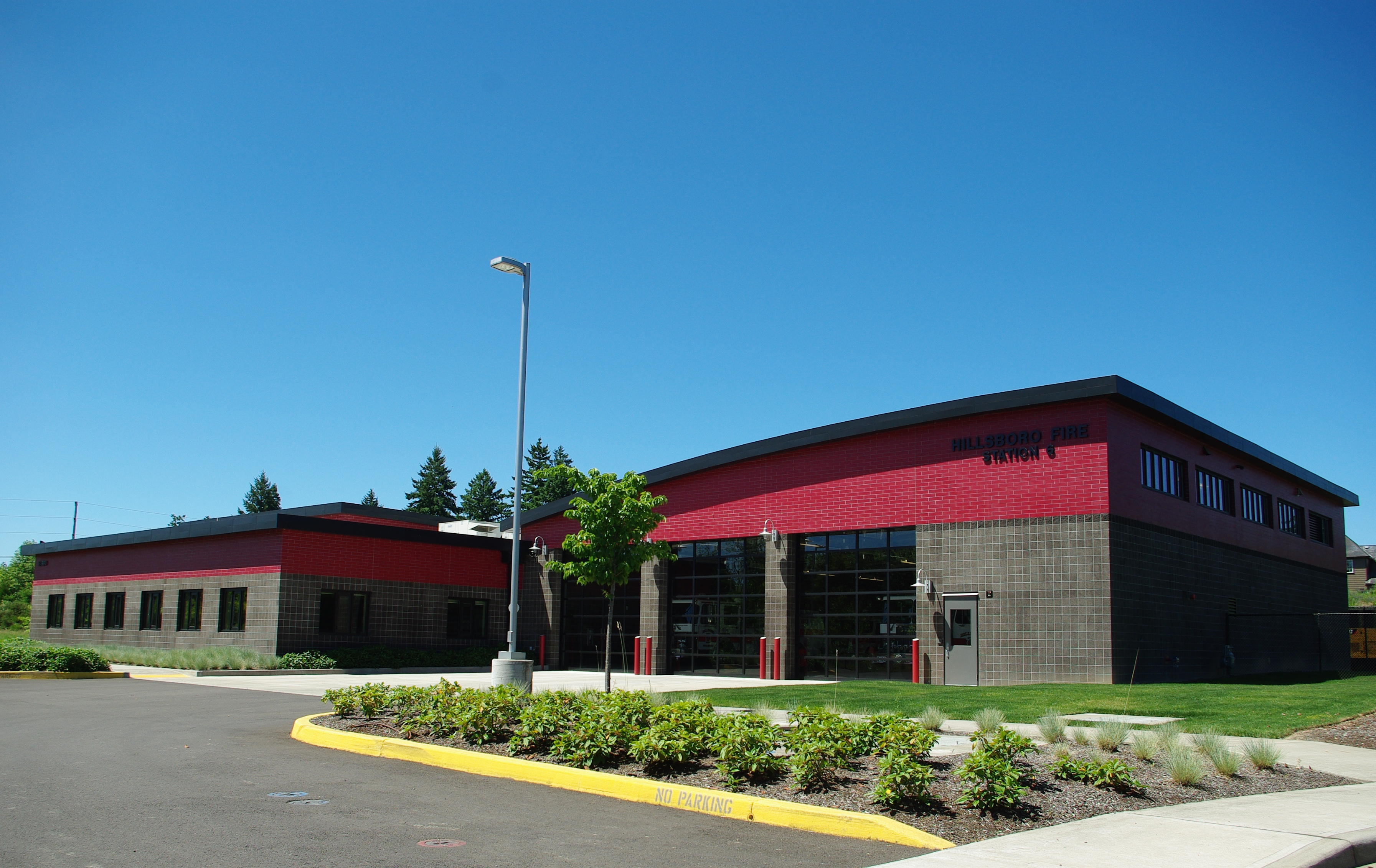 Cherry Lane Fire Station in Hillsboro, Oregon.